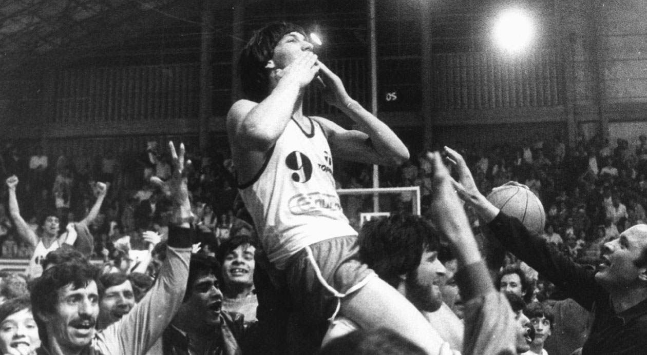 Marcelo Milanesio being raised by fans after Atenas won their first LNB title.